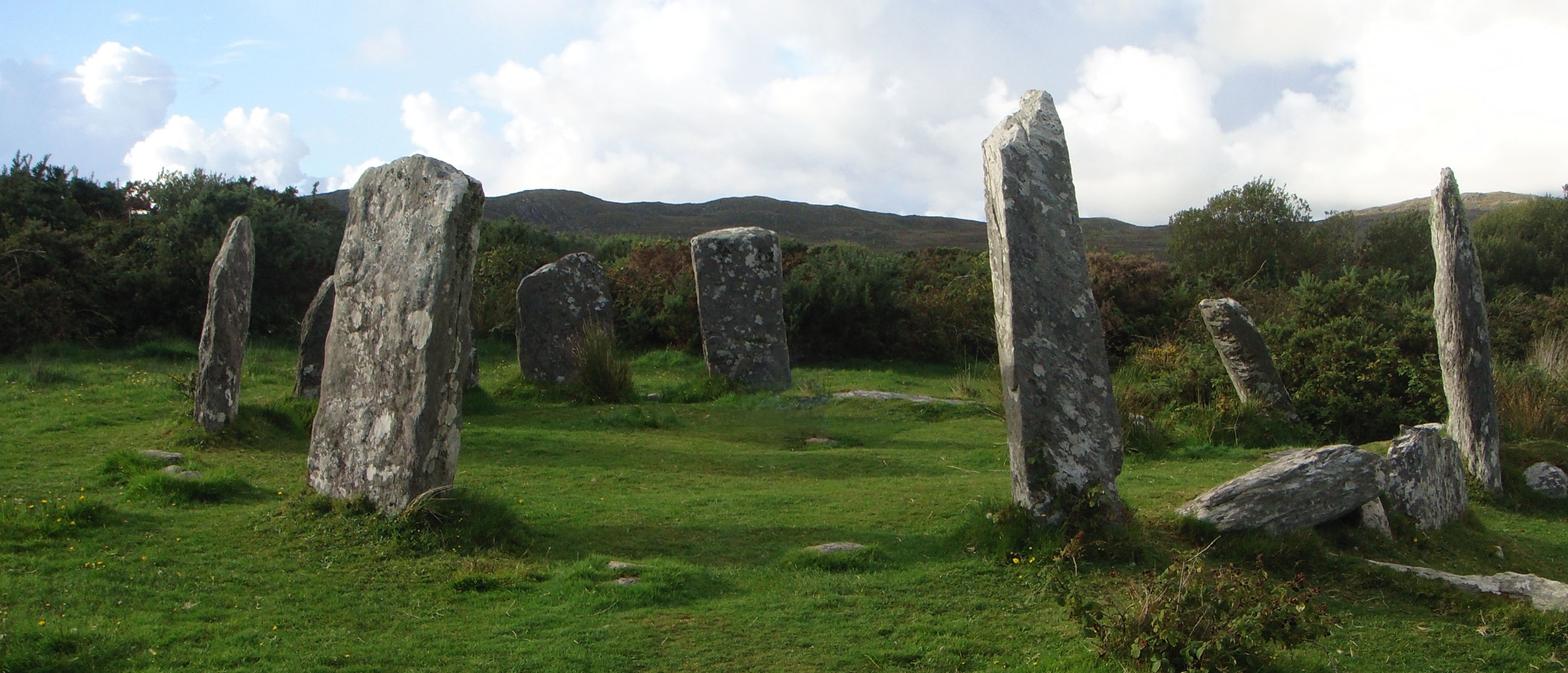 Dereenataggart